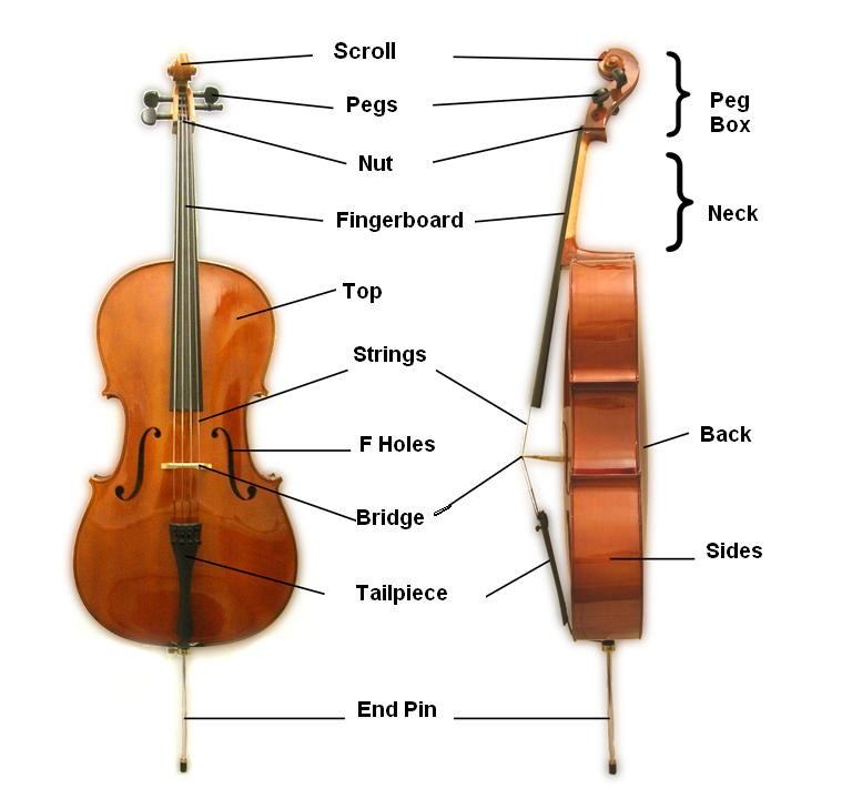 Pic showing main pieces of a cello